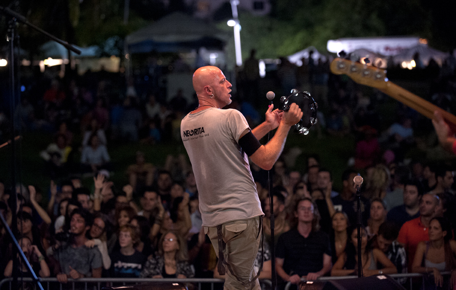 Negrita, Hit Week Summer Festival 2012